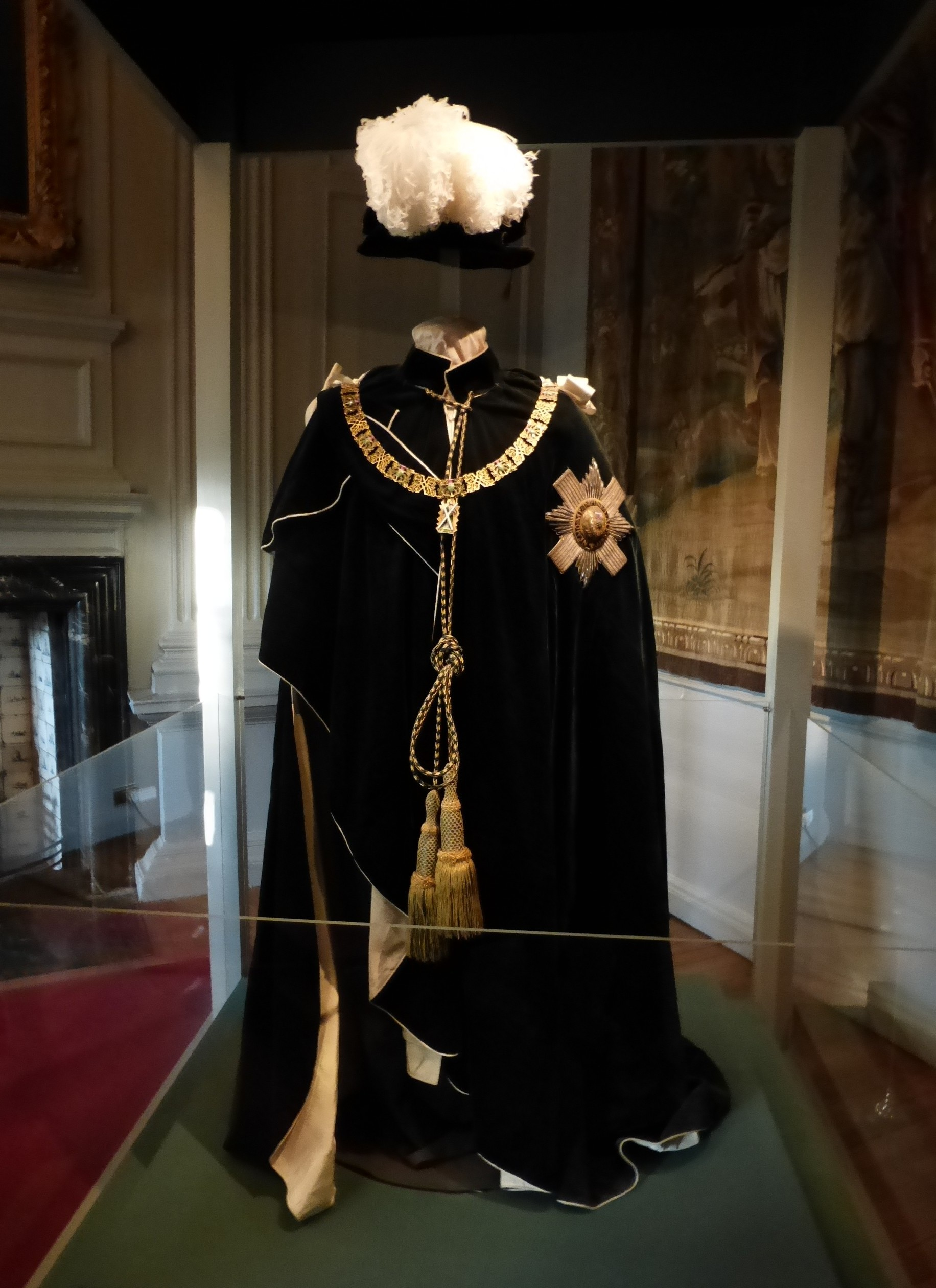 Knight of the Thistle robe, Holyrood Palace